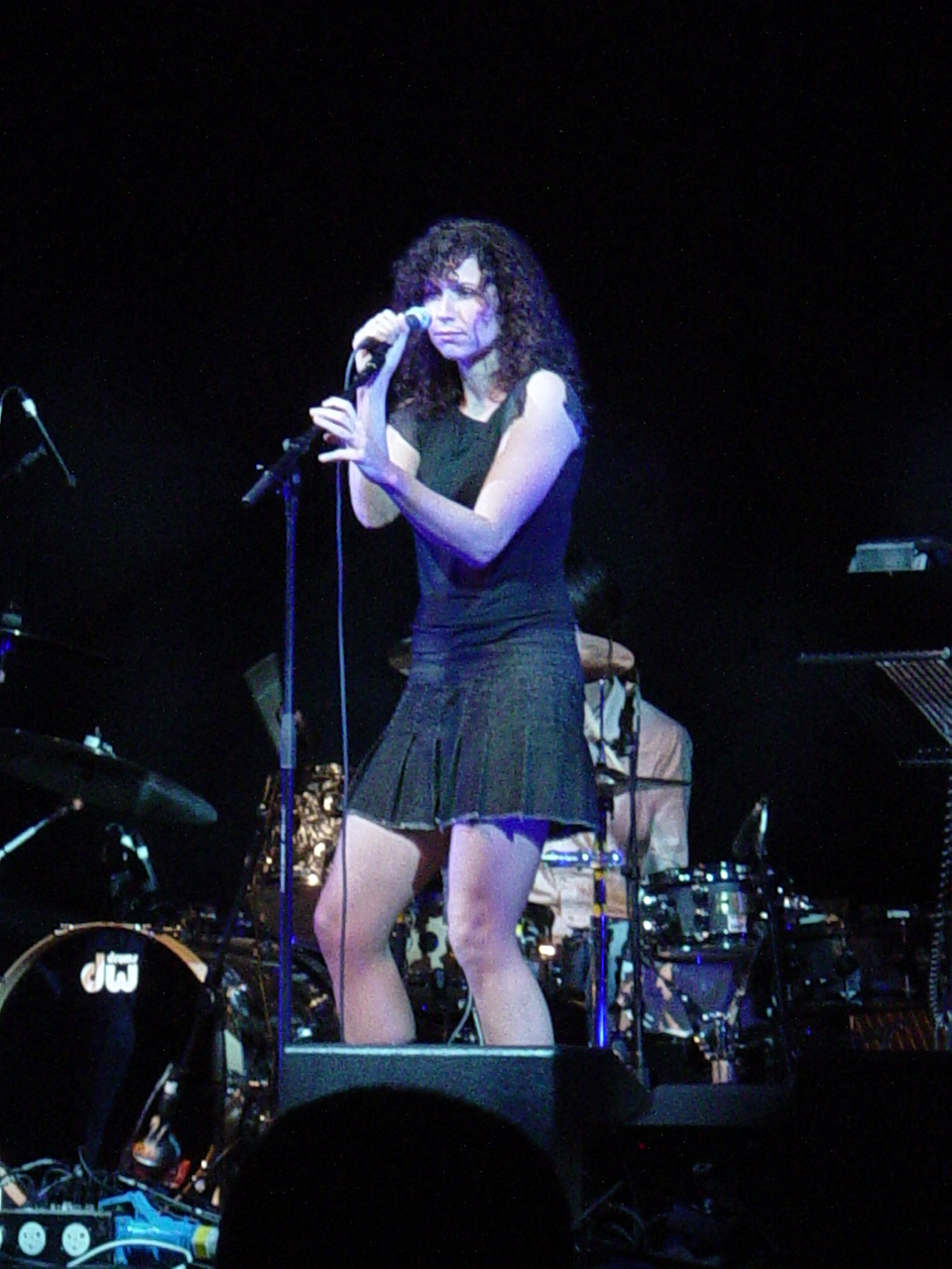 Minnie Driver, cut from The Simpsons Movie. Actress and singer Minnie Driver.